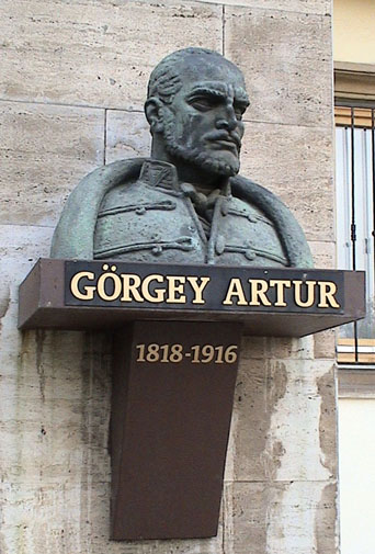 Statue – Ferenc Sidló: Artúr Görgei (1818–1916). Miskolc, Hungary